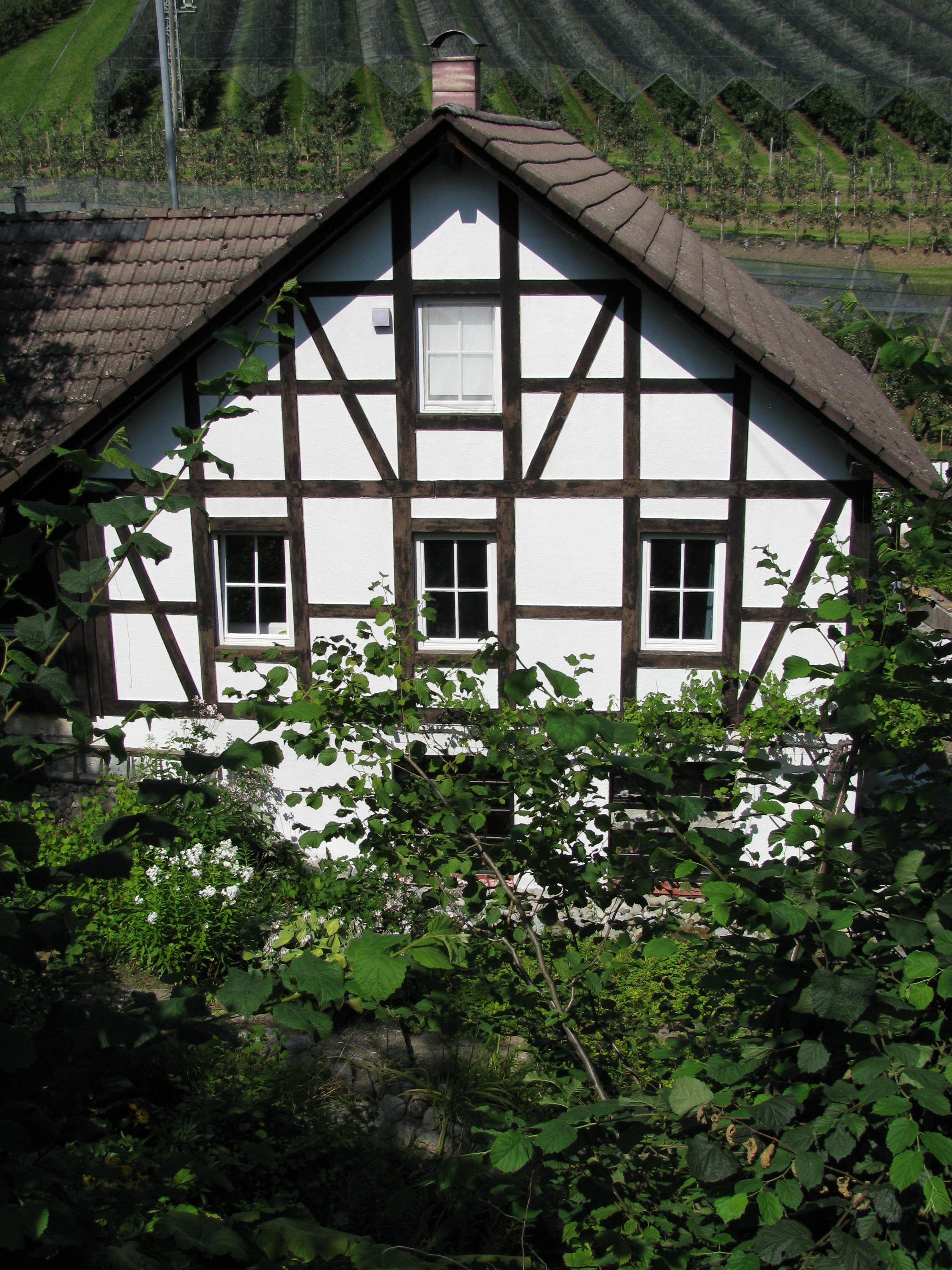 Germany - Baden-Württemberg - Bodenseekreis - Kressbronn am Bodensee - Gottmannsbühl: former trip hammer